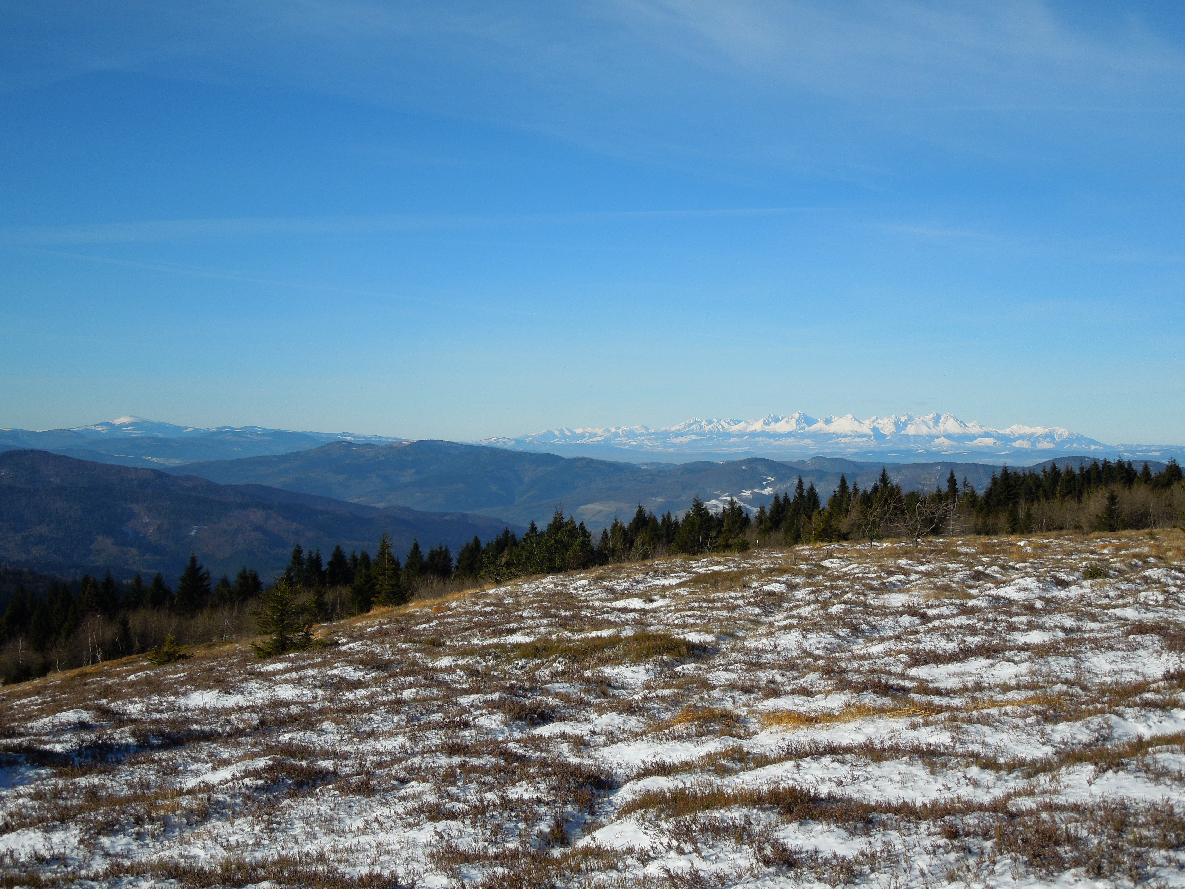 View of the Tatras from Kojšovská hoľa